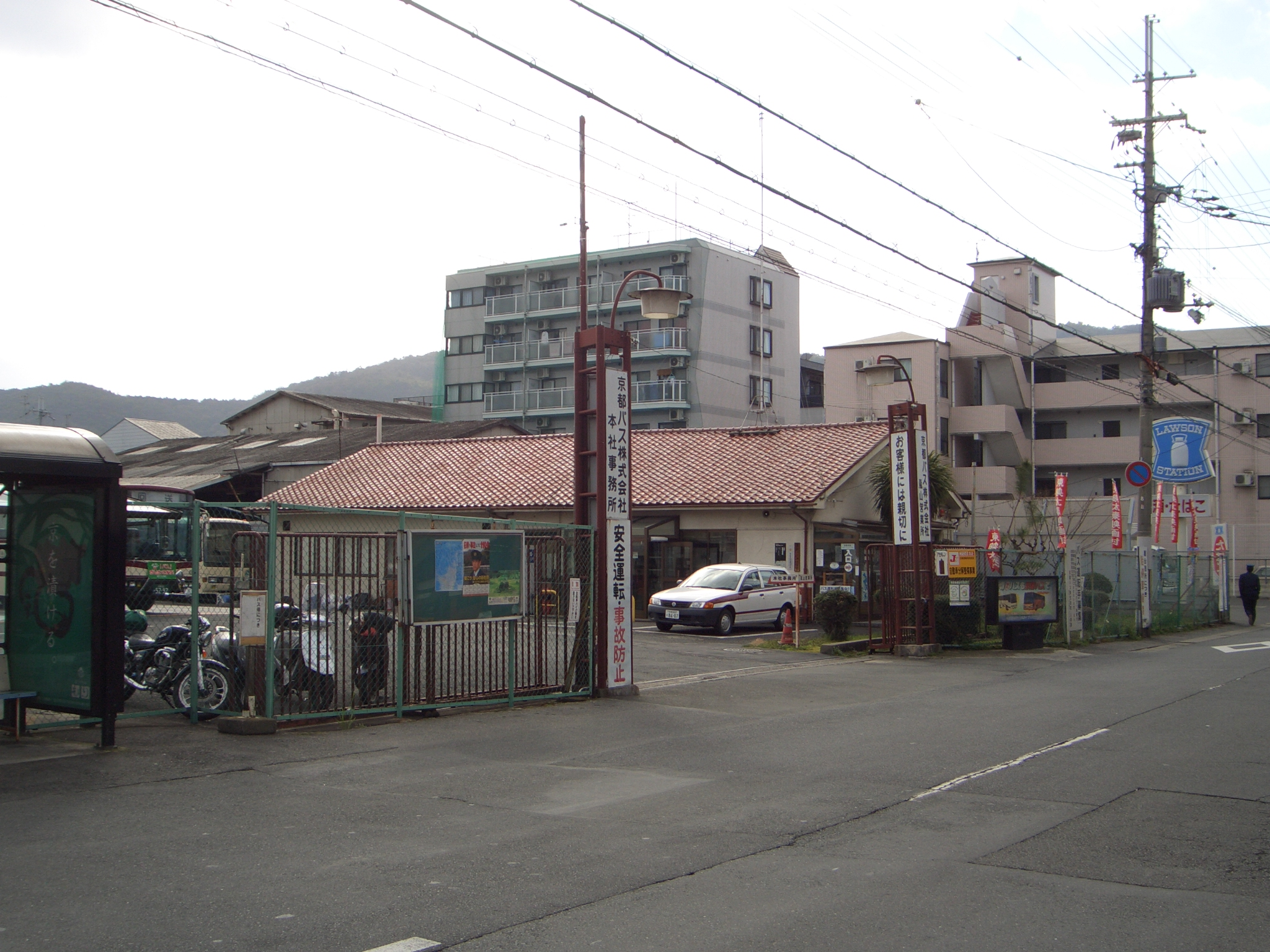 Kyōto Bus Company, headquarters and Arasiyama office. Kyōto, Ukyō ku, Saga myōzyō tyō.